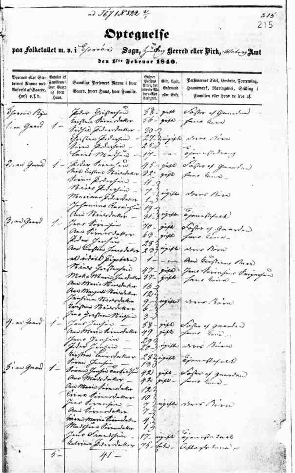 Census in Denmark 1840.